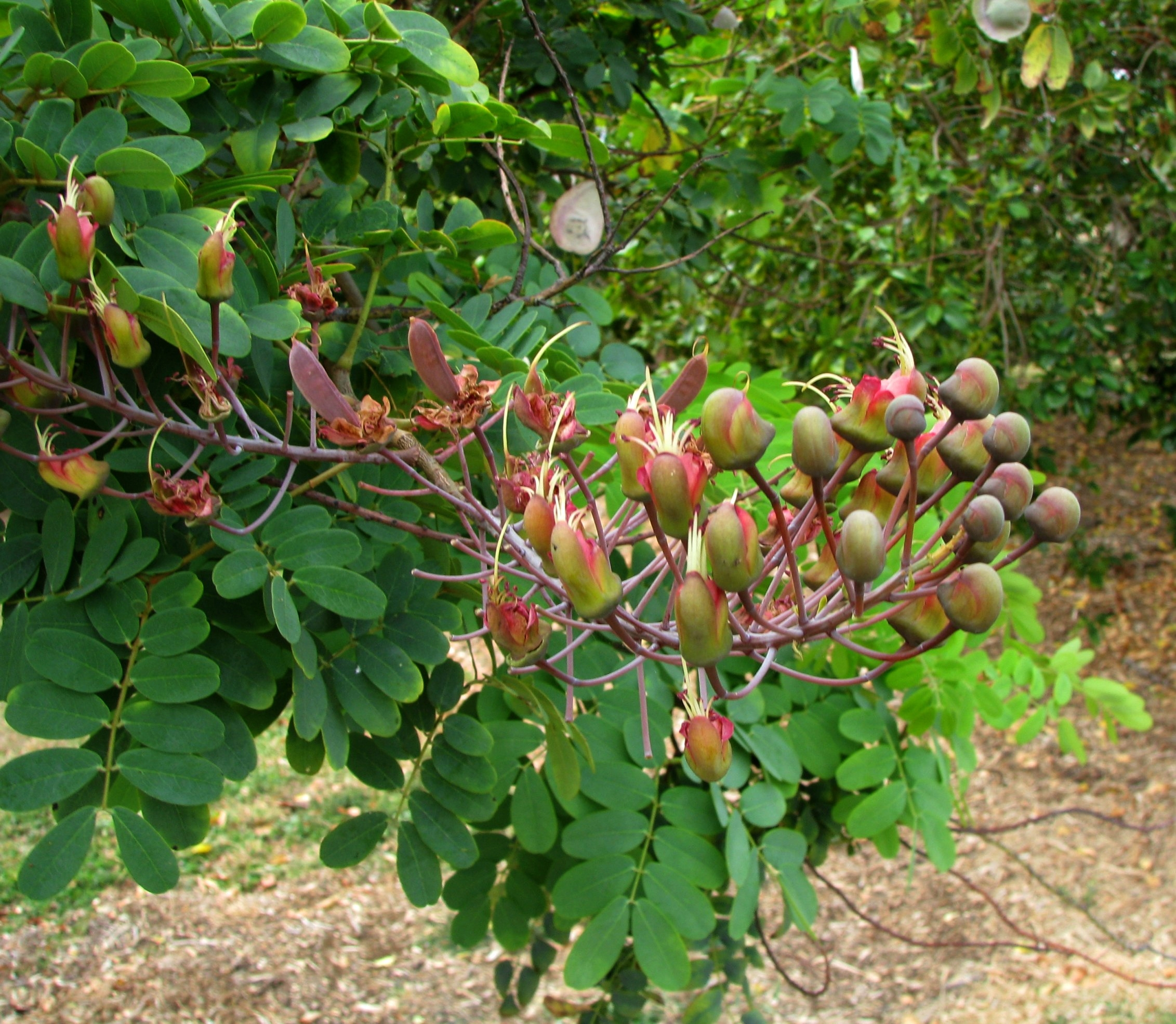 [syn. Caesalpinia kavaiensis] Uhiuhi Fabaceae Endemic to the Hawaiian Islands Endangered Oʻahu (Cultivated), Oʻahu form Early Hawaiians used the hard wood for digging tools (ʻōʻō), war clubs and daggers, prepping boards for kapa (lāʻau kahi wauke), kapa beaters, kalo (taro) cutters, spears for heʻe (octopus), fishing implements (lāʻau melomelo or lāʻau mākālei), and shark hooks (makau manō) fitted with bone points. This strong wood was also used in house (hale) construction for posts, rafters and purlins. The bark and young leaves pounded with other plants were pounded, squeezed and liquid taken to purify the blood. Uhiuhi, or māmane (Sophora chrysophylla), wood was also used for sled runners in a sport for the aristocrats called papa hōlua. The slopes were usually made with layers of grass or ti leaves. Notes the Huliheʻe Palace website: "The person about to slide gripped the sled by the right hand grip, ran a few yard to the starting place, grasped the other hand grip with the left hand, threw himself forward with all his strength, fell flat on the sled and slid down the hill. His hands held the handgrips and the feet were braced against the last cross piece on the rear portion of the sled. The sport was extremely dangerous as the sleds attained high speed running down hill. Much skill was necessary to keep an even balance and to keep from running off the slide or overturning the sled. In competitions, the sled that went the farthest, won." One older source (Charles Gaudichaud,1819) states that Hawaiians "used all fragrant plants, all flowers and even colored fruits" for lei making. The red or yellow were indicative of divine and chiefly rank; the purple flowers and fruit, or with fragrance, were associated with divinity. Because of their long-standing place in oral tradition, the flowers of uhiuhi were likely used for lei making by early Hawaiians, even though there are no written sources. NPH00014